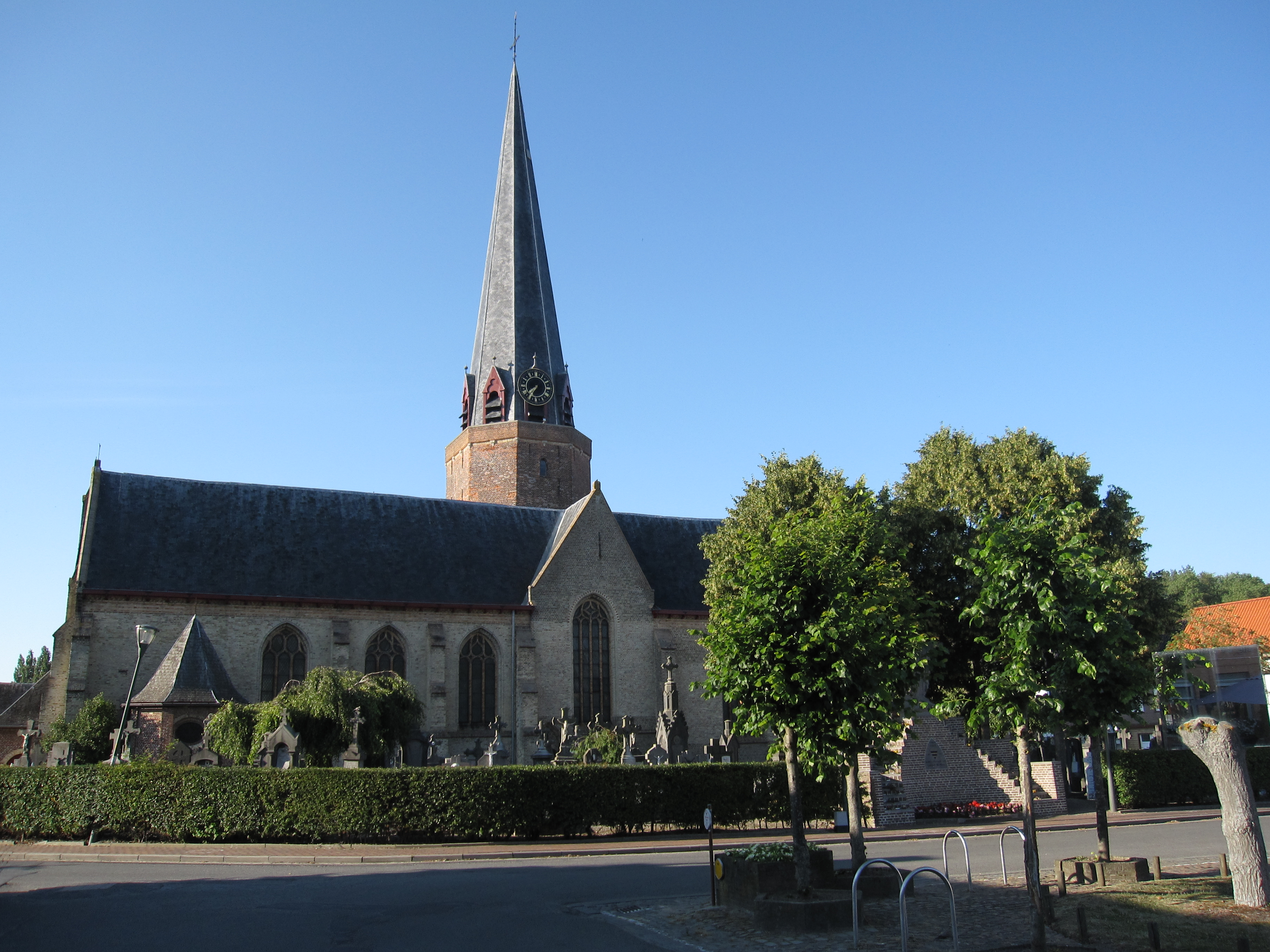 The Watou church and cemetery is located next to Watouplein, the square in the center of the village. During World War 1, called the Great War in Belgium, Watou and its surroundings was a quiet resting area behind the lines. No armed conflicts took place here, so the church only saw a few war funerals between April 1915 (the second battle of Ypres) and November 1918 (when the war ended).